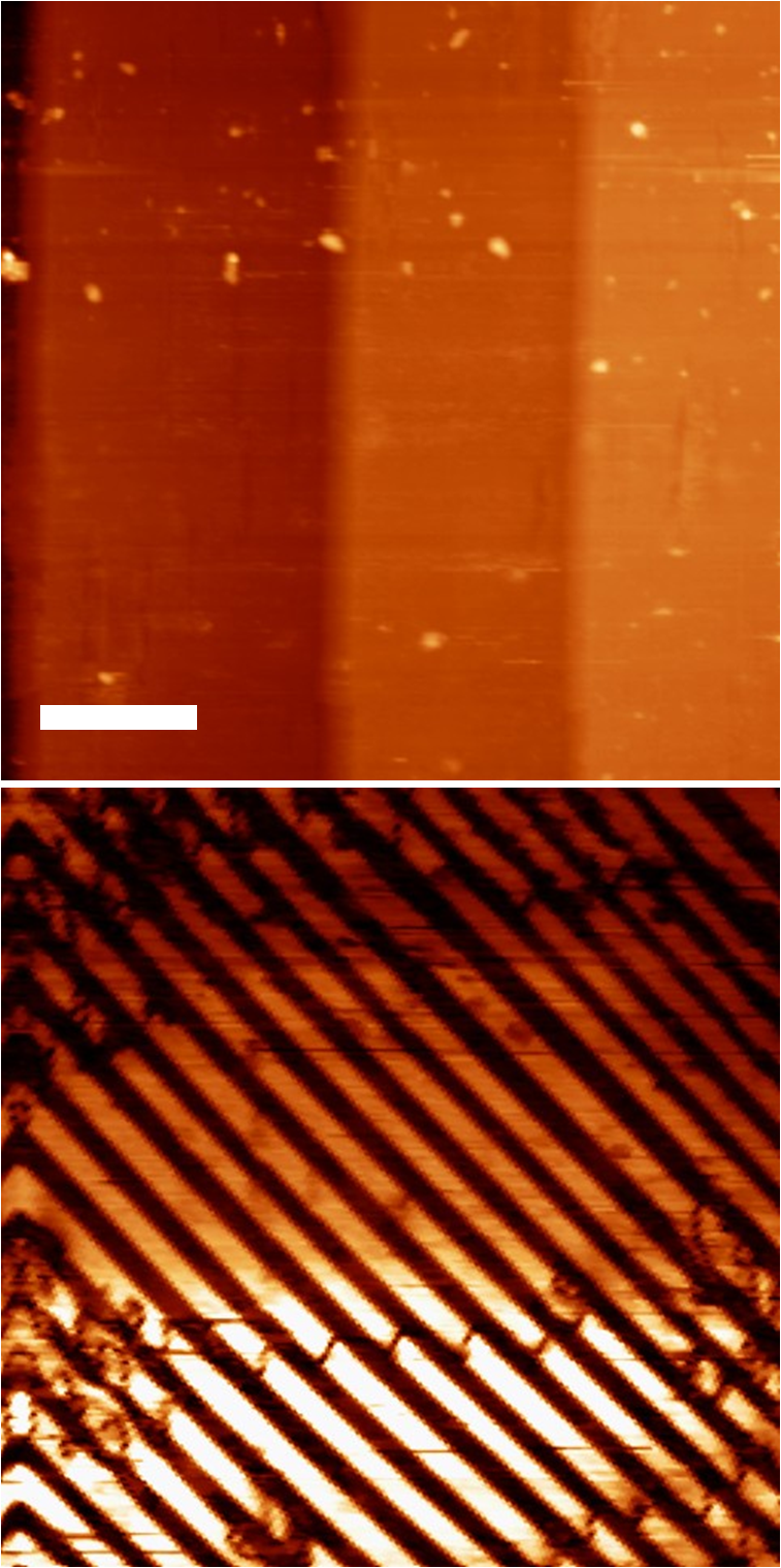 Piezoresponse Force Microscopy image of bulk BaTiO3 single crystal showing simultaneously acquired topography and aa-domain structure